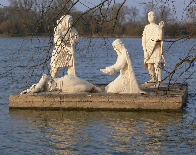 King Lear's Lake, Watermead Country Park Leicester. The main lake at Watermead is King Lear's Lake and has been named after the legend of King Lear, who ruled Britain in the 8th century. On his death he was buried in a chamber under the River Soar. The statues, built on a platform in the lake, show the final scene from Shakespeare's play of King Lear.